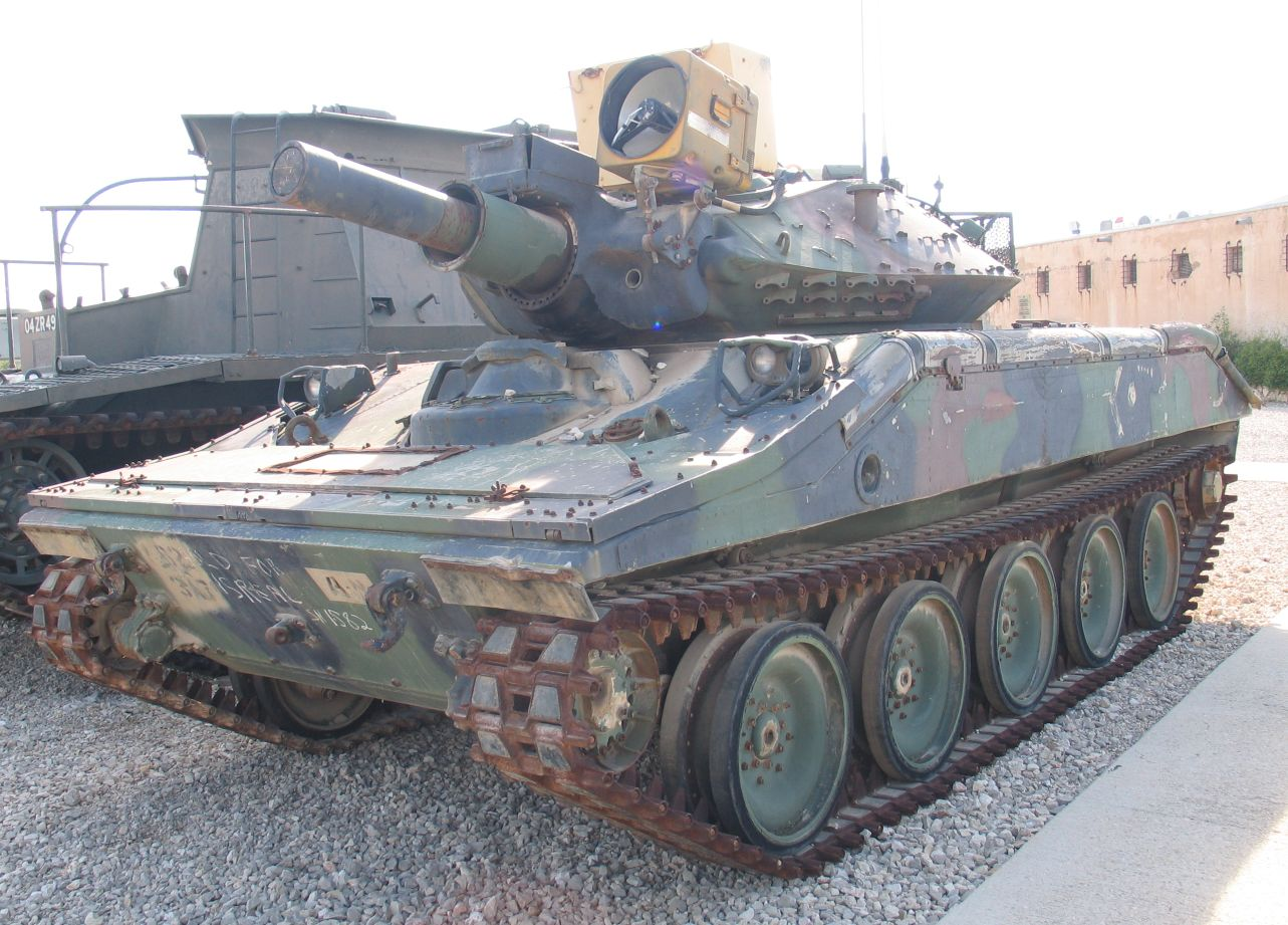 Description: M551 Sheridan light tank in Yad la-Shiryon Museum, Israel. 2005. Source: Photo by me, User:Bukvoed.